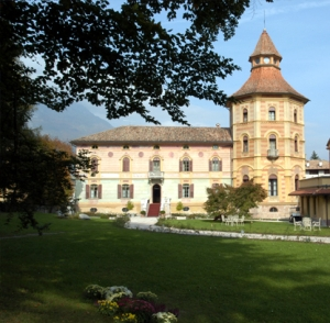 La villa detta Di Campo.